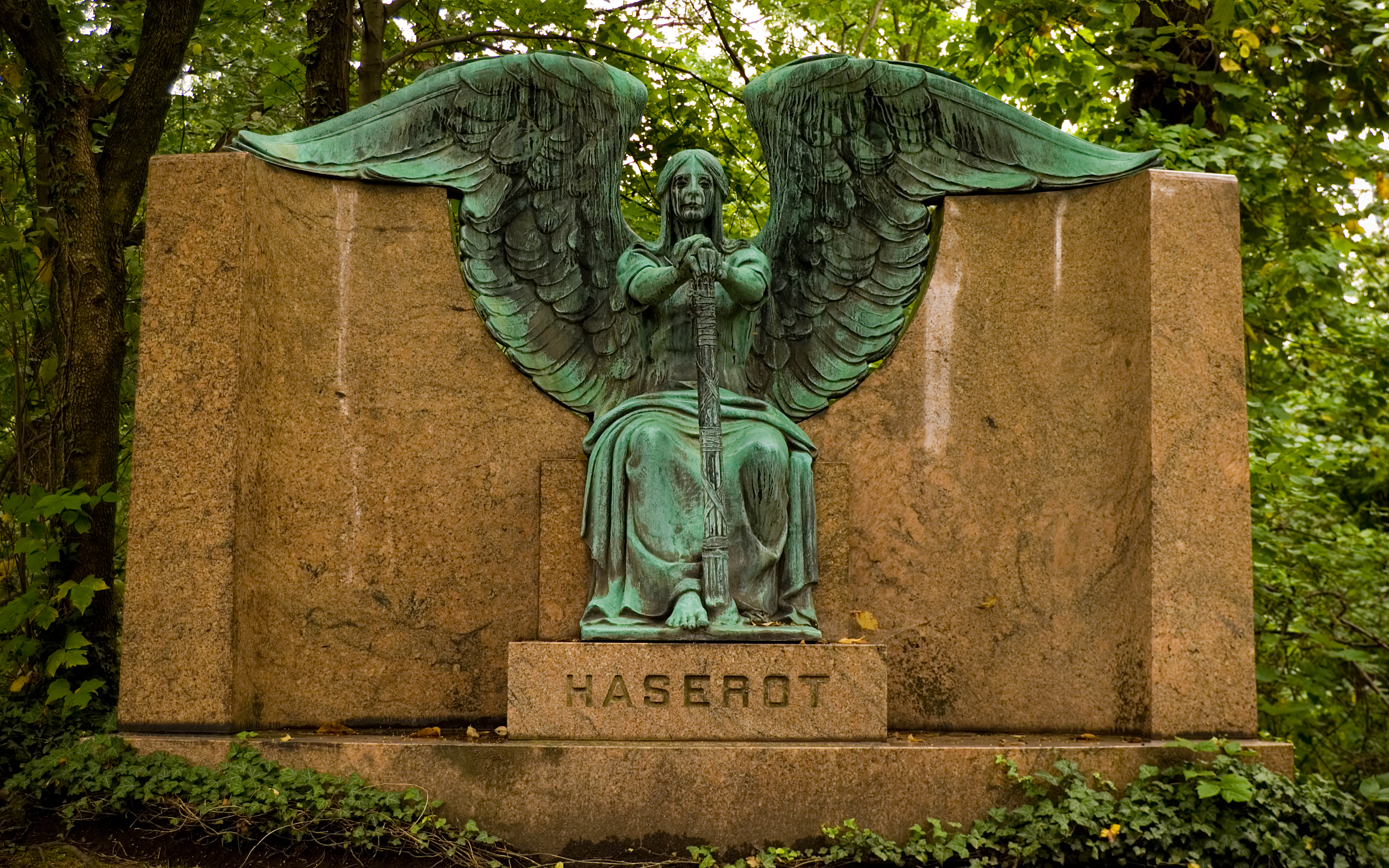 Front view of the "Angel of Death Victorious" statue created by Herman Matzen for the Francis Haserot grave site located at the Lakeview Cemetery in Cleveland, Ohio.